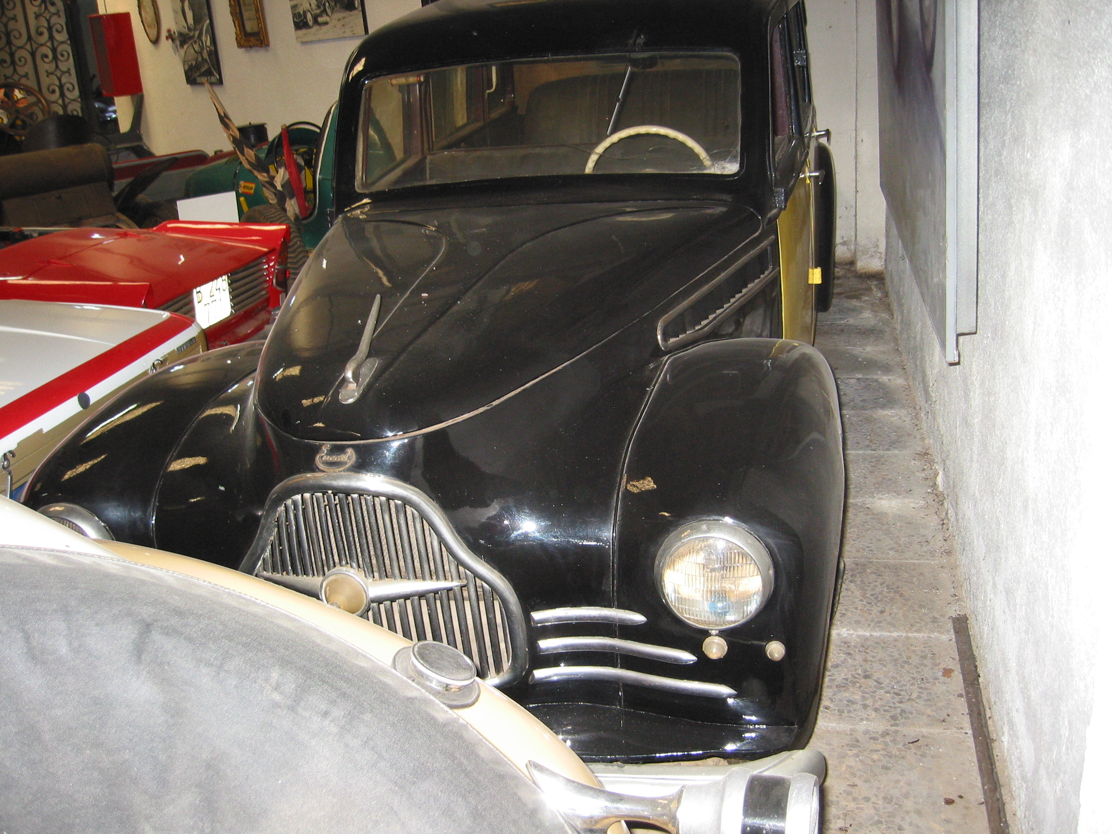 Eucort 1950 (Country of origin: Spain)